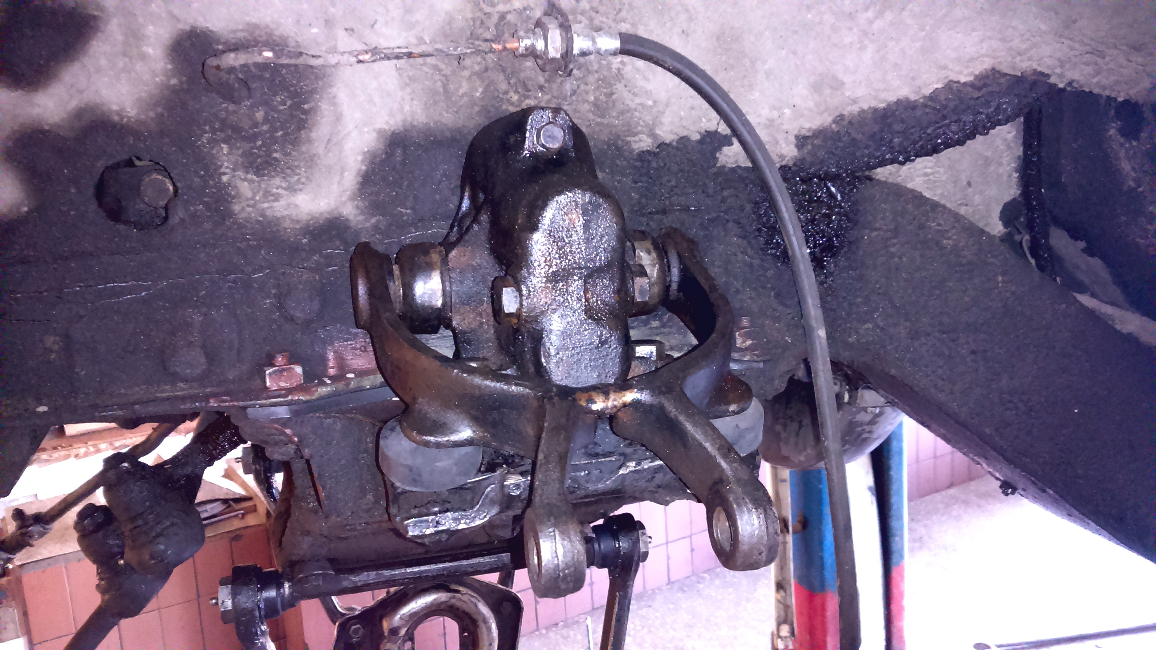 GAZ M-21 "hydraulic lever arm" type shock absorber, as used before year 1962.